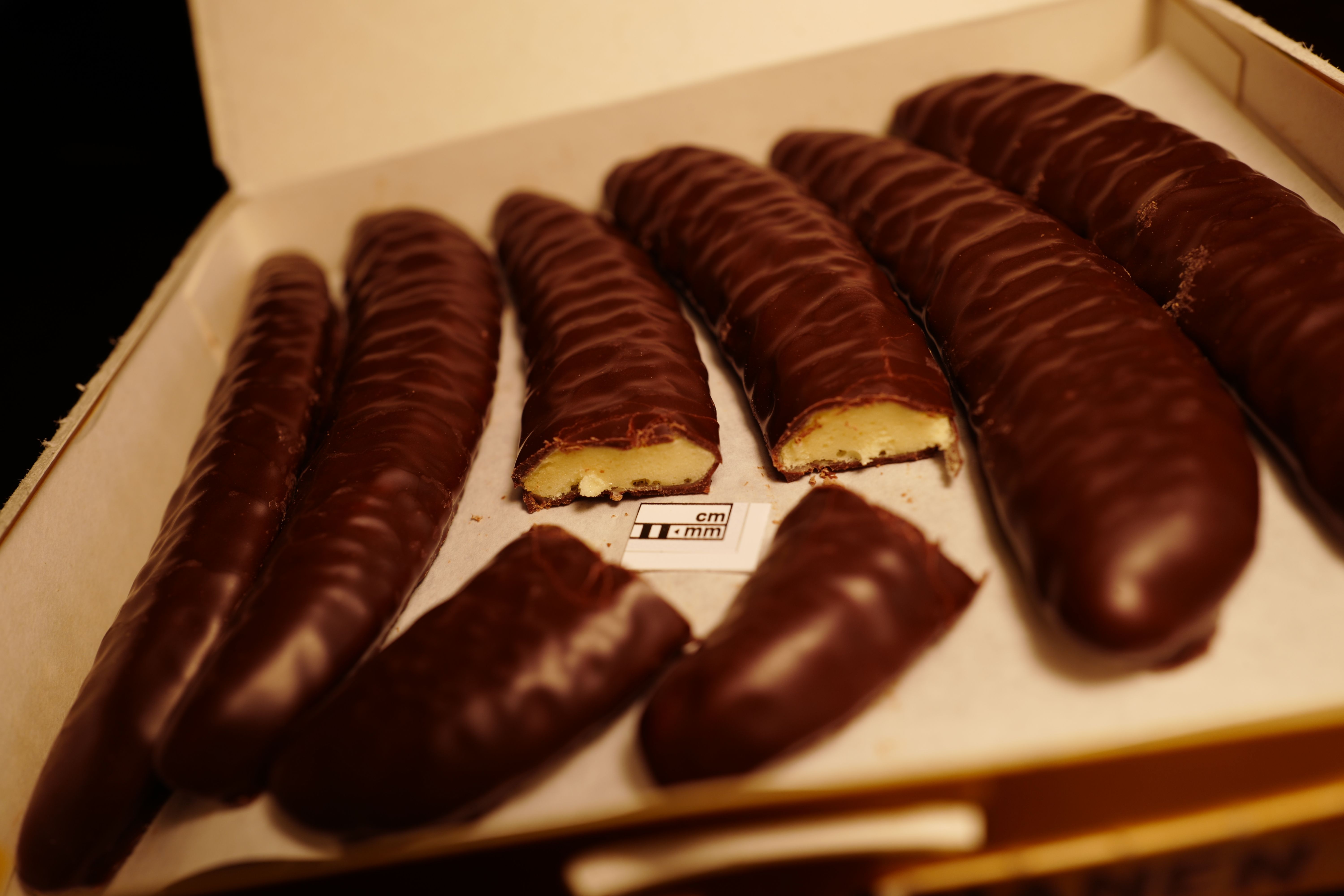 Chocolate banana (Schokoladen-Banane), bought at Vienna (Wien) Central Train Station (Hauptbahnhof) in June 2018 at the Manner store. Brand is Casali which is owned by Manner